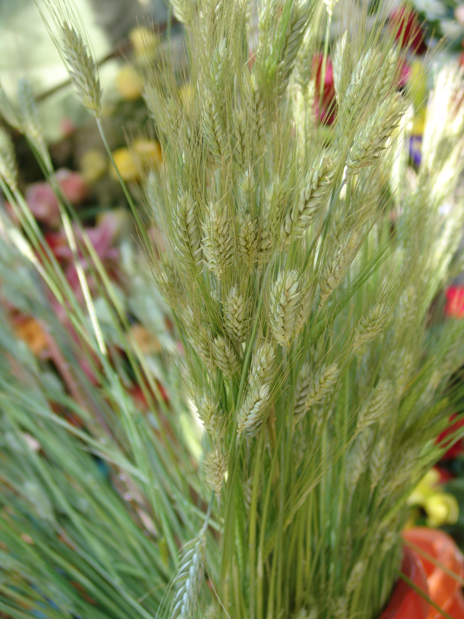 St George's Day in Catalonia